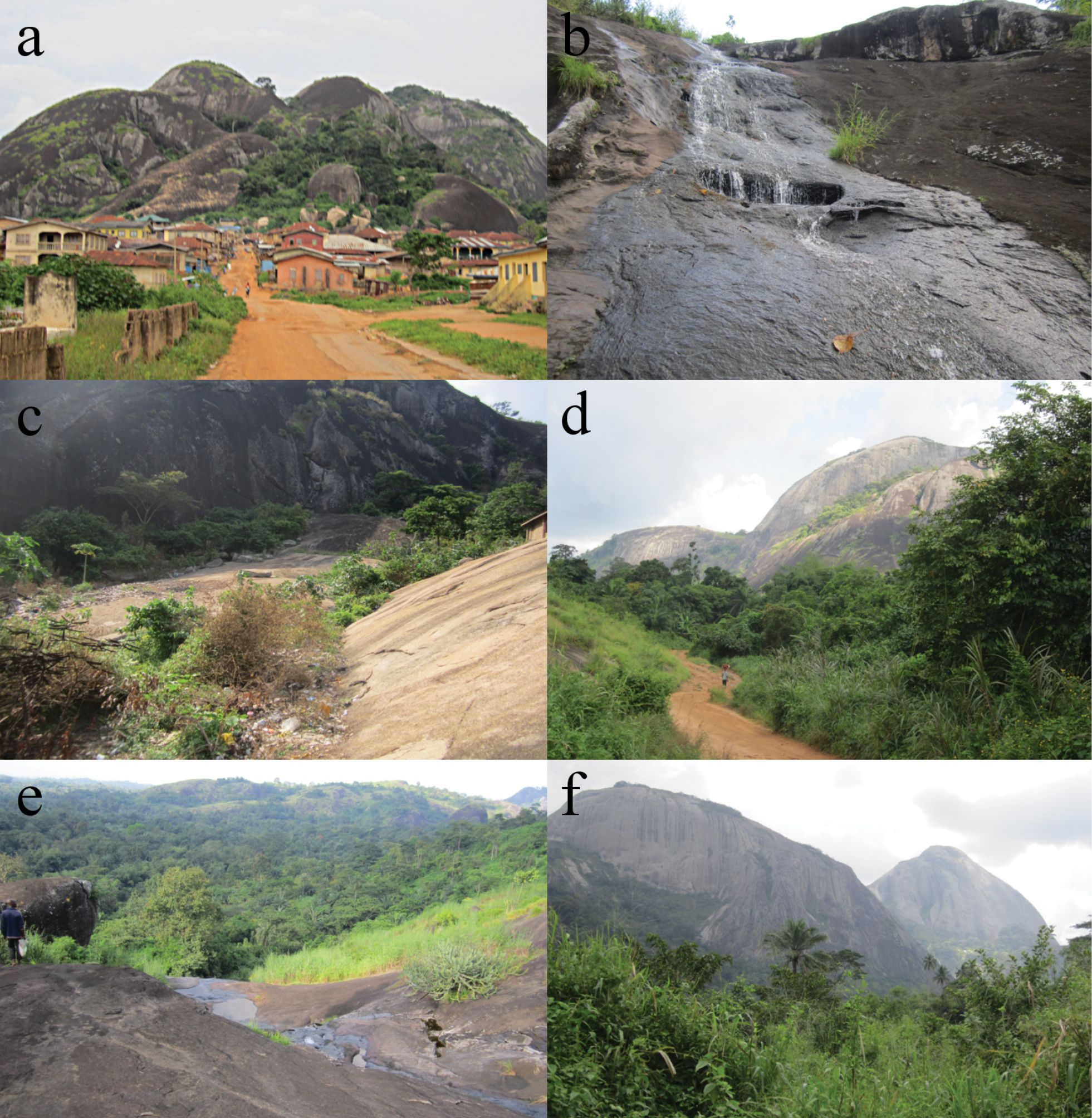 Views from the Idanre Hills, south-western Nigeria